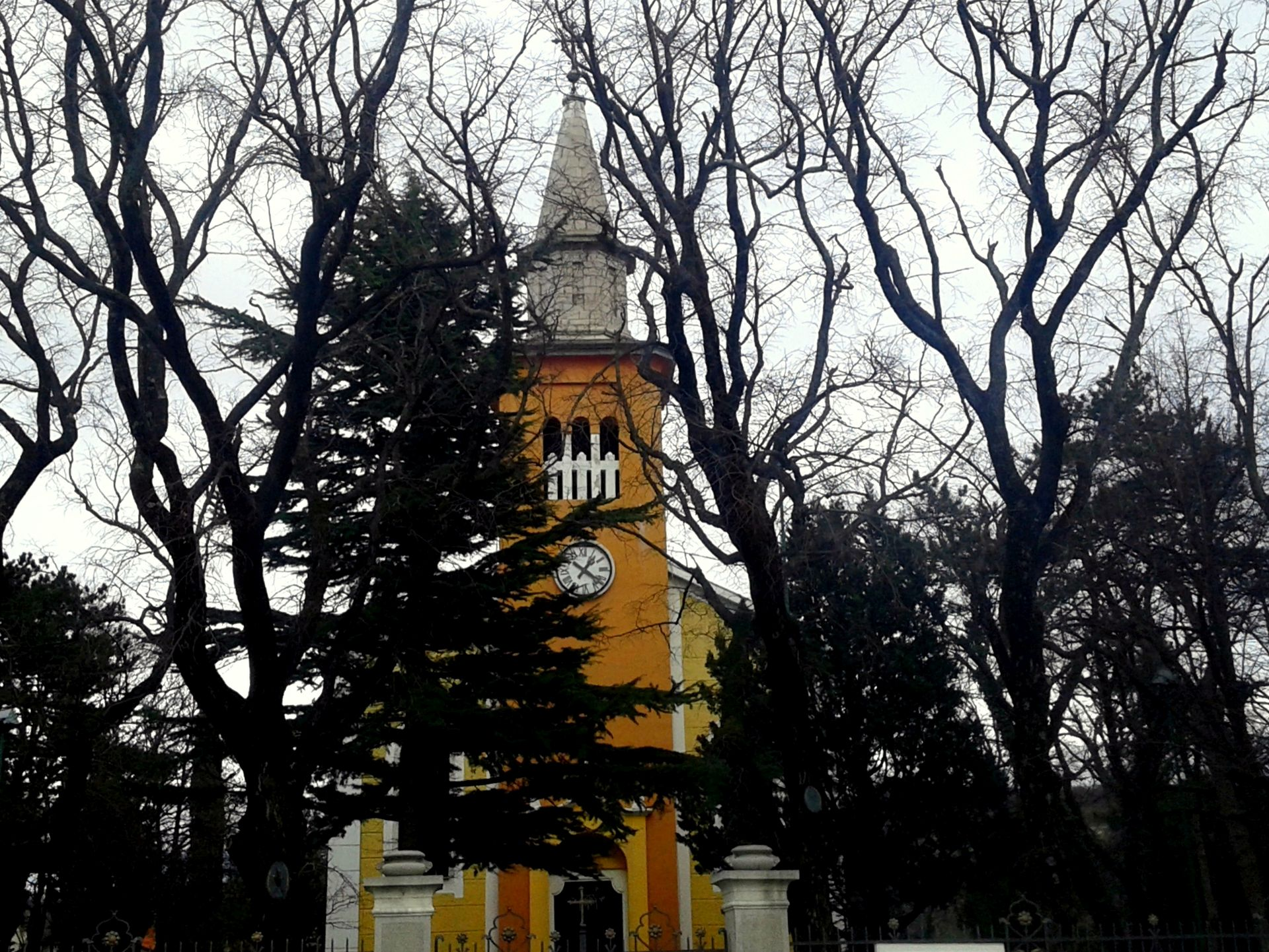 Kukuljanovo - The parish church of St. Francis of Assisi